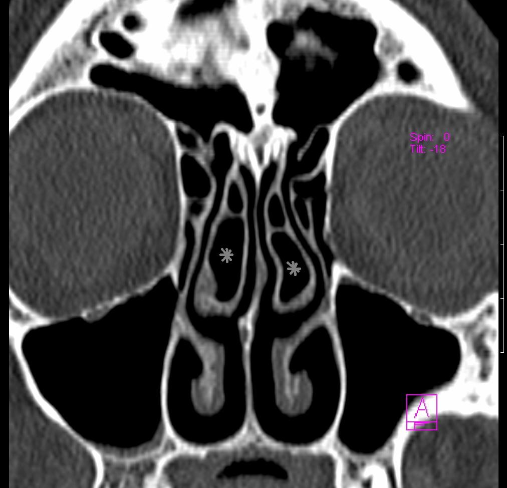 CT